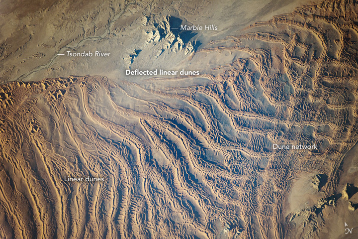 An astronaut aboard the International Space Station (ISS) used a long lens to document what crews have termed one of the most spectacular features of the planet: the dunes of the Namib Sand Sea. Looking inland (from an ISS position over the South Atlantic) near sunset, the highest linear dunes show smaller linear dunes riding along their crests. Linear dunes are generally aligned parallel to the formative wind—in this case, strong winds from the south. Southerly winds explain the parallel north-aligned linear dunes on the left side of the image. But this simple pattern is disrupted near the Tsondab valley. The valley acts as a funnel for winds from the east. These less frequent but strong winter winds are channeled down the valley and usually carry large amounts of sand, similar to the Santa Ana winds in California. These strong easterly winds significantly deflect all the linear dunes near the valley so that they point downwind (image center). Further inland (right), the north-pointing and west-pointing patterns appear superimposed, making a rectangular pattern. Because the Namib Desert is very old—dating from the time when the cold, desert-forming Benguela ocean current started to flow about 37 million years ago—wind patterns and dune patterns have shifted over time. North-oriented dunes have shifted north and east with drier climates and stronger winds, overriding but not removing earlier dune chains and making the rectangular dune network we see today. The Tsondab River is a well-known Namib Desert river because it is blocked by linear dunes (just outside the left margin of the image) 100 kilometers (60 miles) from the Atlantic Ocean. Research has shown that during wetter times, it did reach the ocean. The name Tsondab means “that which is running is suddenly stopped” in the local Khoisan language. Along the edge of the dune-free Tsondab River valley, we can see star dunes, which are smaller and display multiple arms (top left).